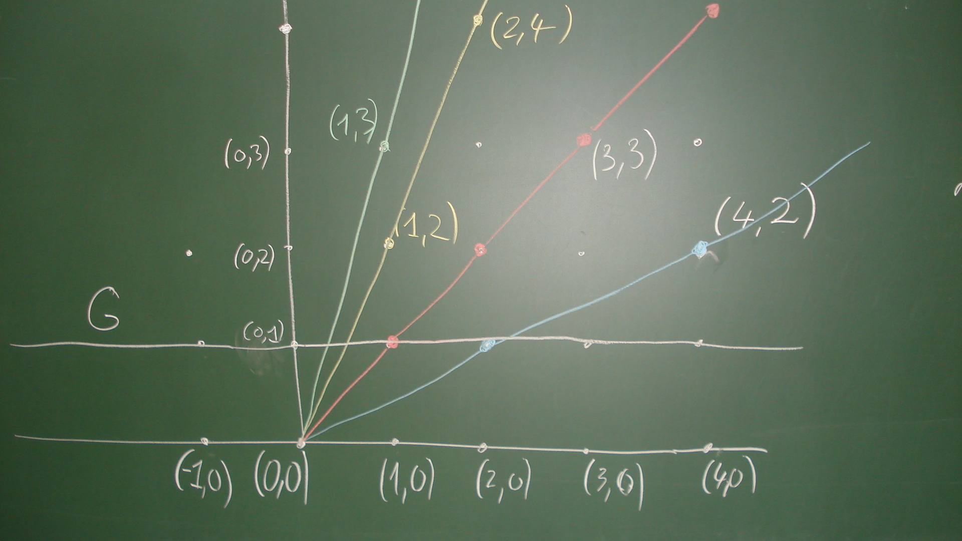 Foto of blackboard picture of a construction of rational numbers